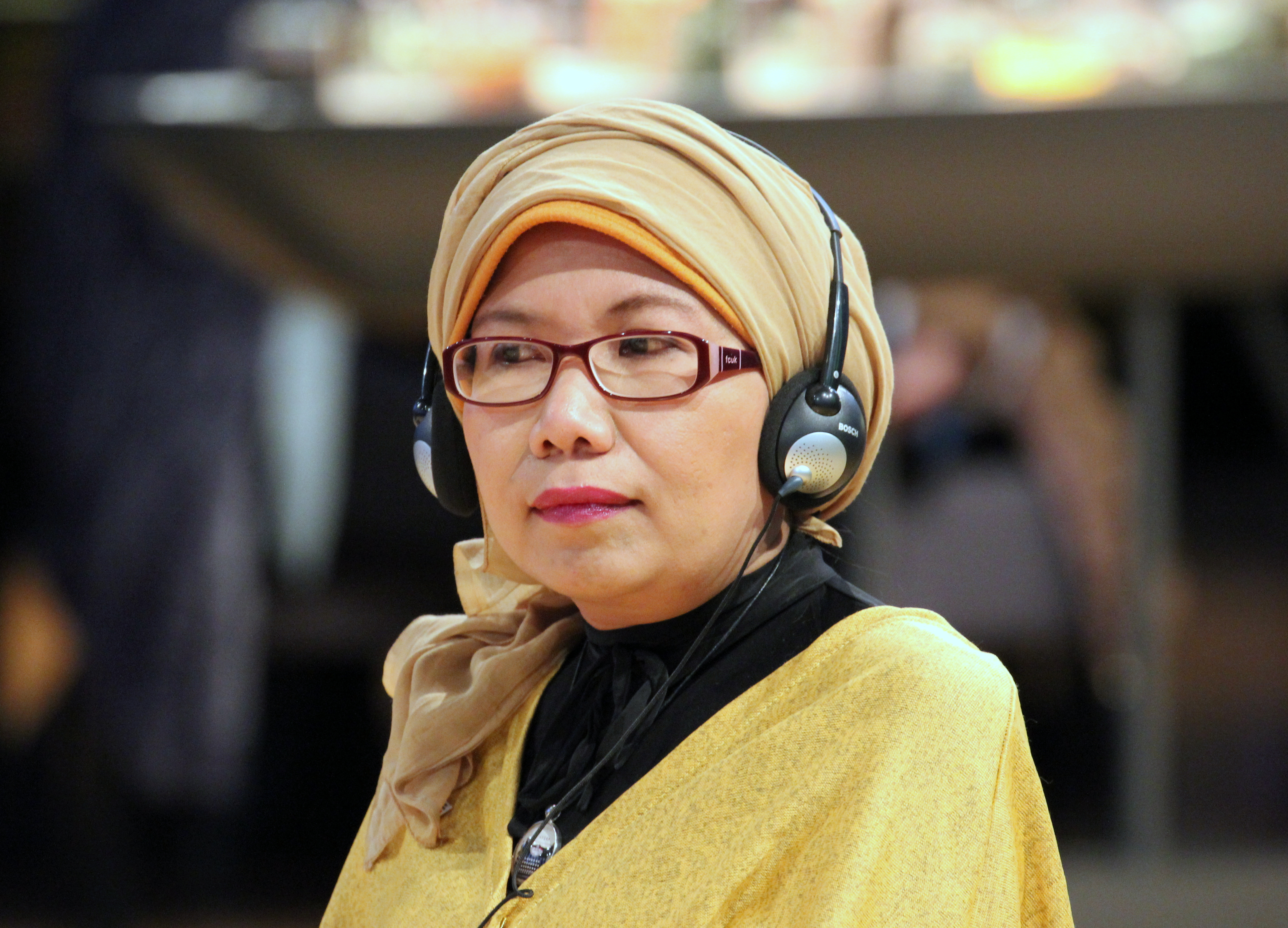 Lily Yulianti Farid at Frankfurt Book Fair 2015